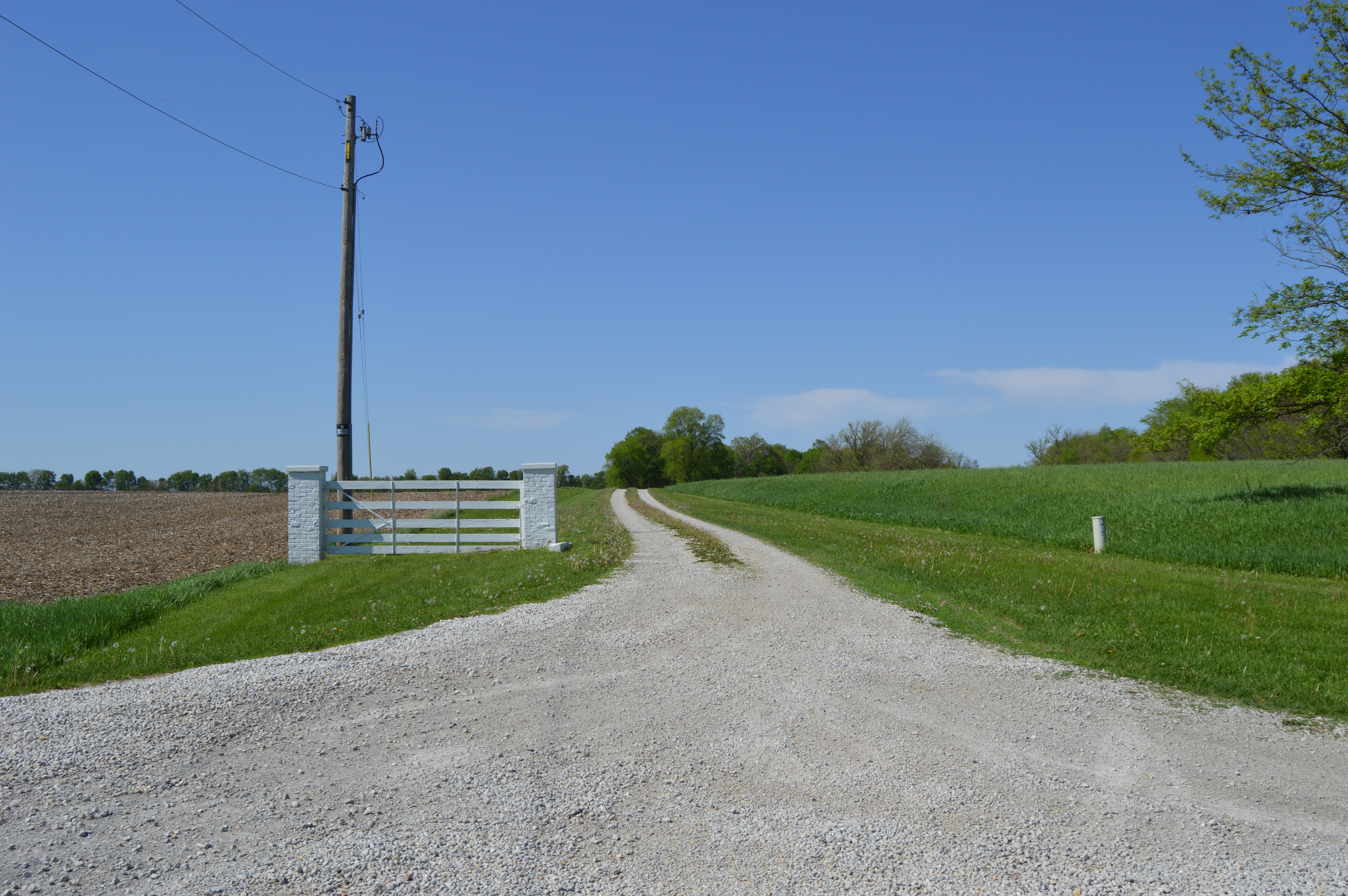 Driveway to the Power Farmstead, located on Road 9500N east of Cantrall in Fancy Creek Township, Sangamon County, Illinois, United States. The farmstead is listed on the National Register of Historic Places.